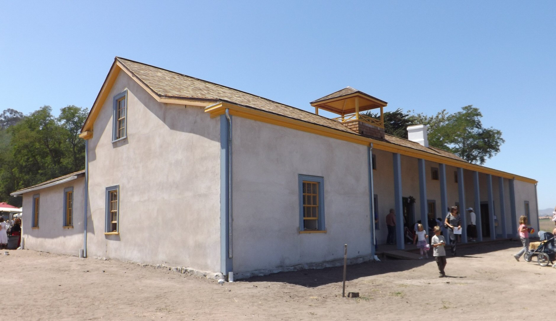 The newly restored Dana Adobe in Nipomo during their Heritage fiesta.